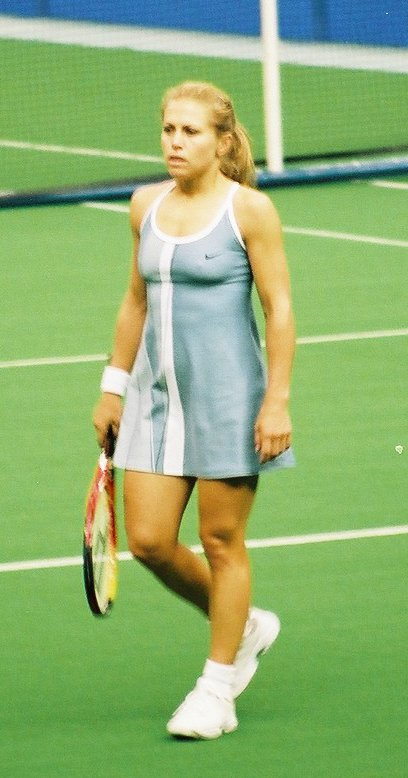 Amanda Coetzer takes part in an exhibition match with Ai Sugiyama at Nagoya Rainbow Hall in February 7, 2000.